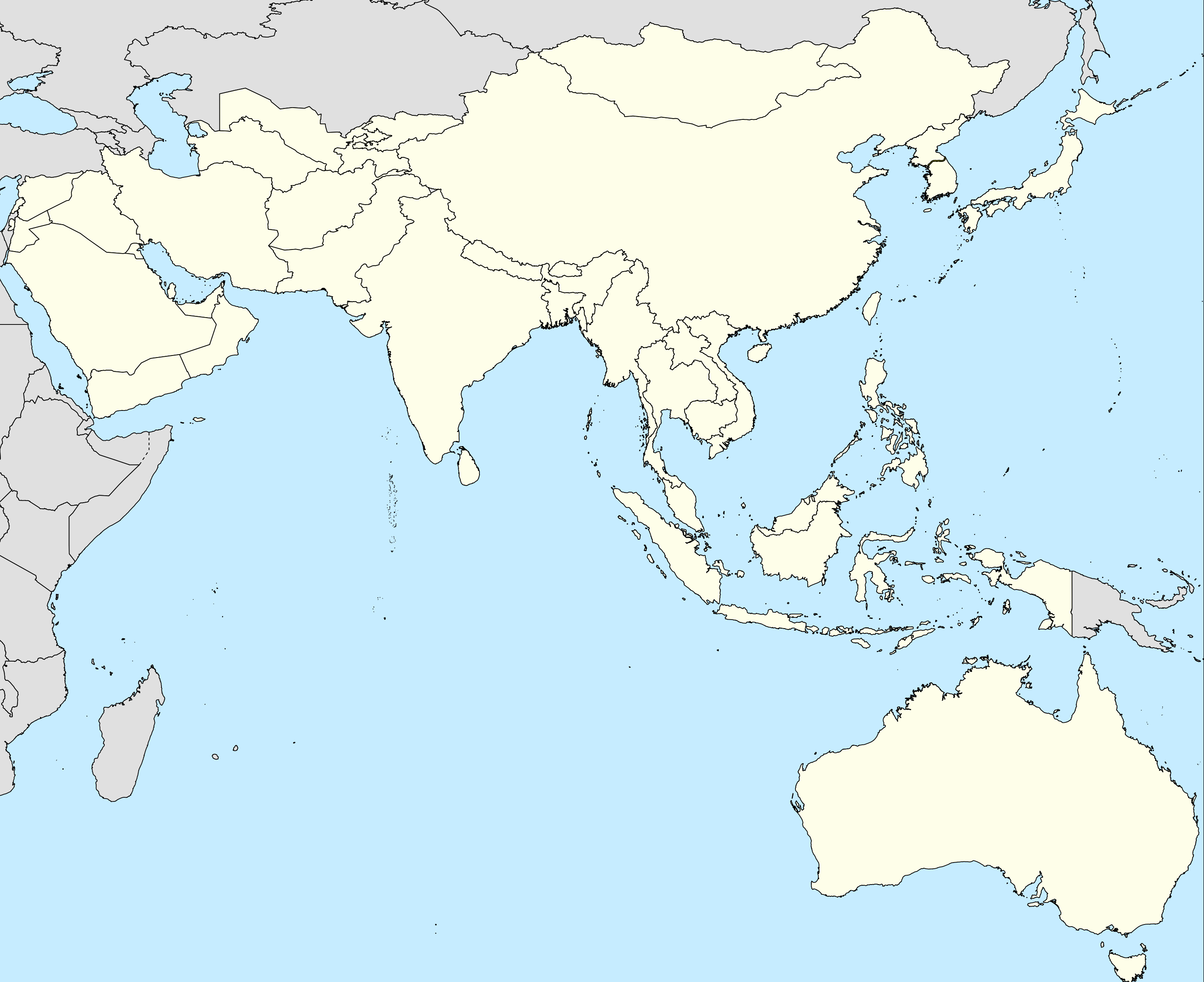 AFC location map